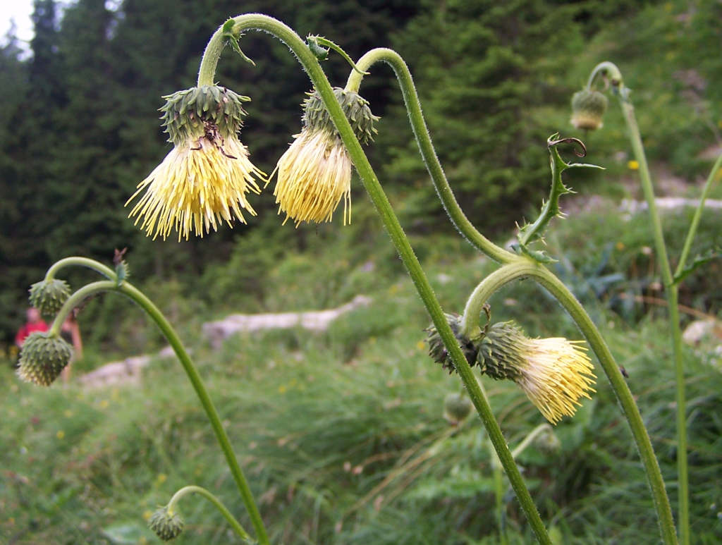 Cirsium erisithales (pl. ostrożeń lepki), habitat: Tatra Mountains, Dolina Jaworzynka